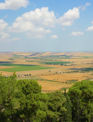 The Tavoliere seen from Lucera